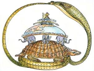 the turtle and elephants and the "flat earth myth"